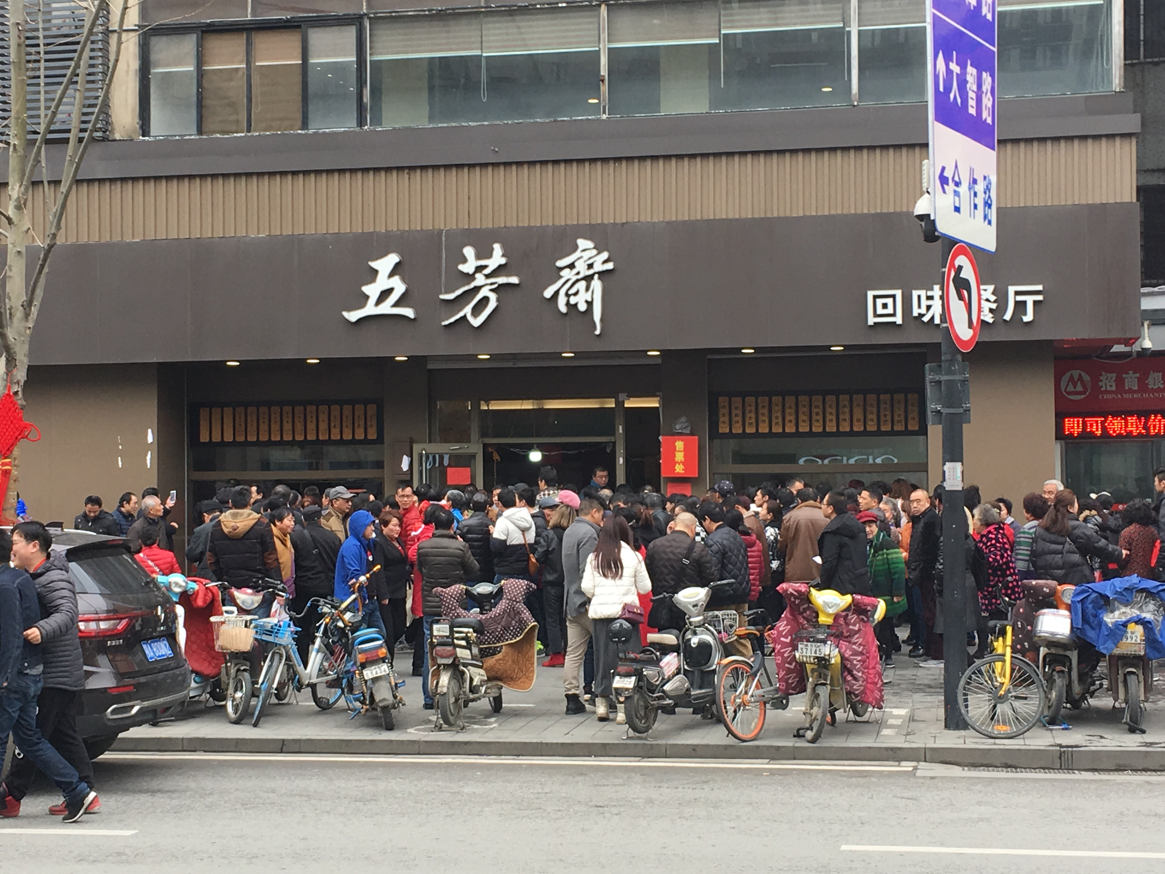 People gather to buy dumplings in Wufangzhai